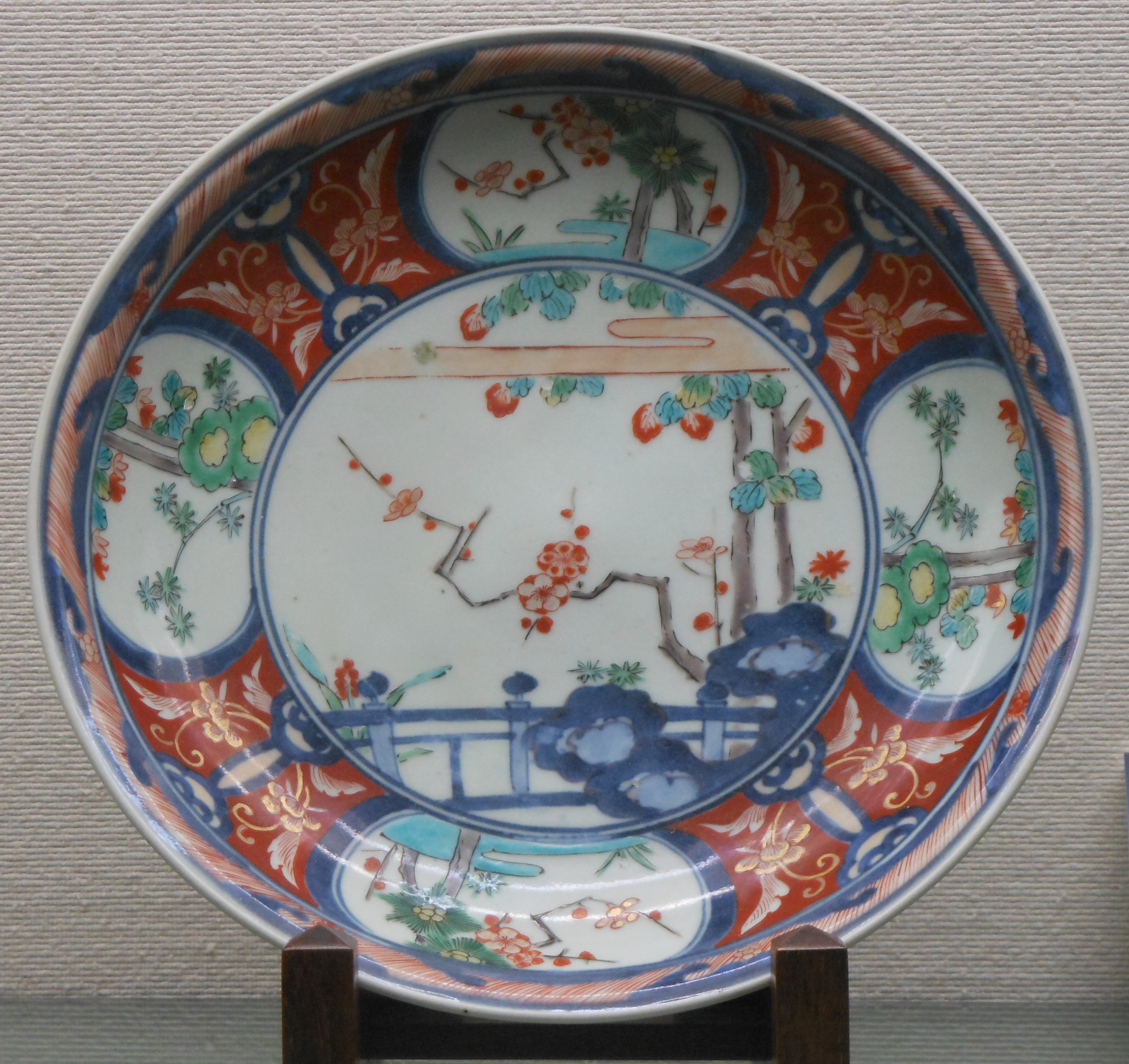 Name:Iroe-Umerankanmadoemon-Sara (Dish with overglaze polychrome enamel design of plum and fence.) Collection:Mr. and Mrs. Shibata collection VII-76 Era:1700-1730s Made in:Arita Sarayama Collected, displayed by:Kyushu Ceramic Museum